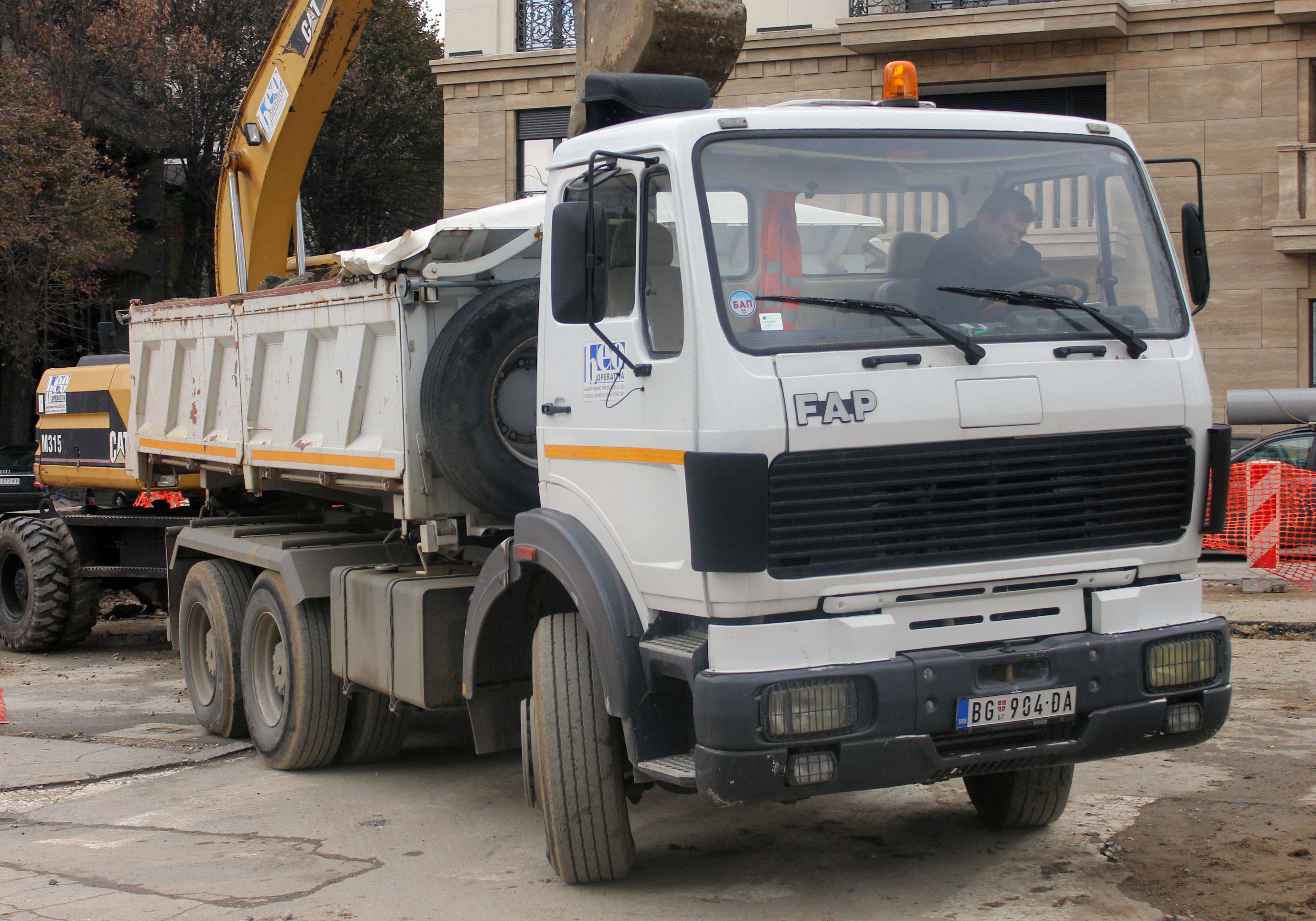 FAP 3035 dump truck of Beooperativa construction company.